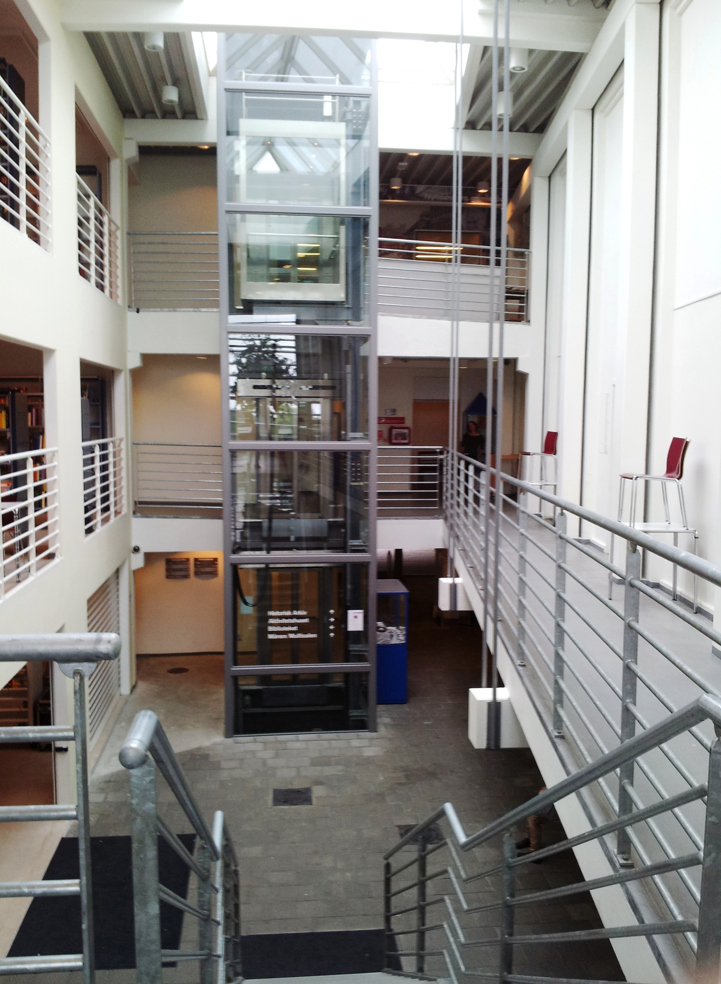 The community centre Bispen from the inside. The library is to the left.